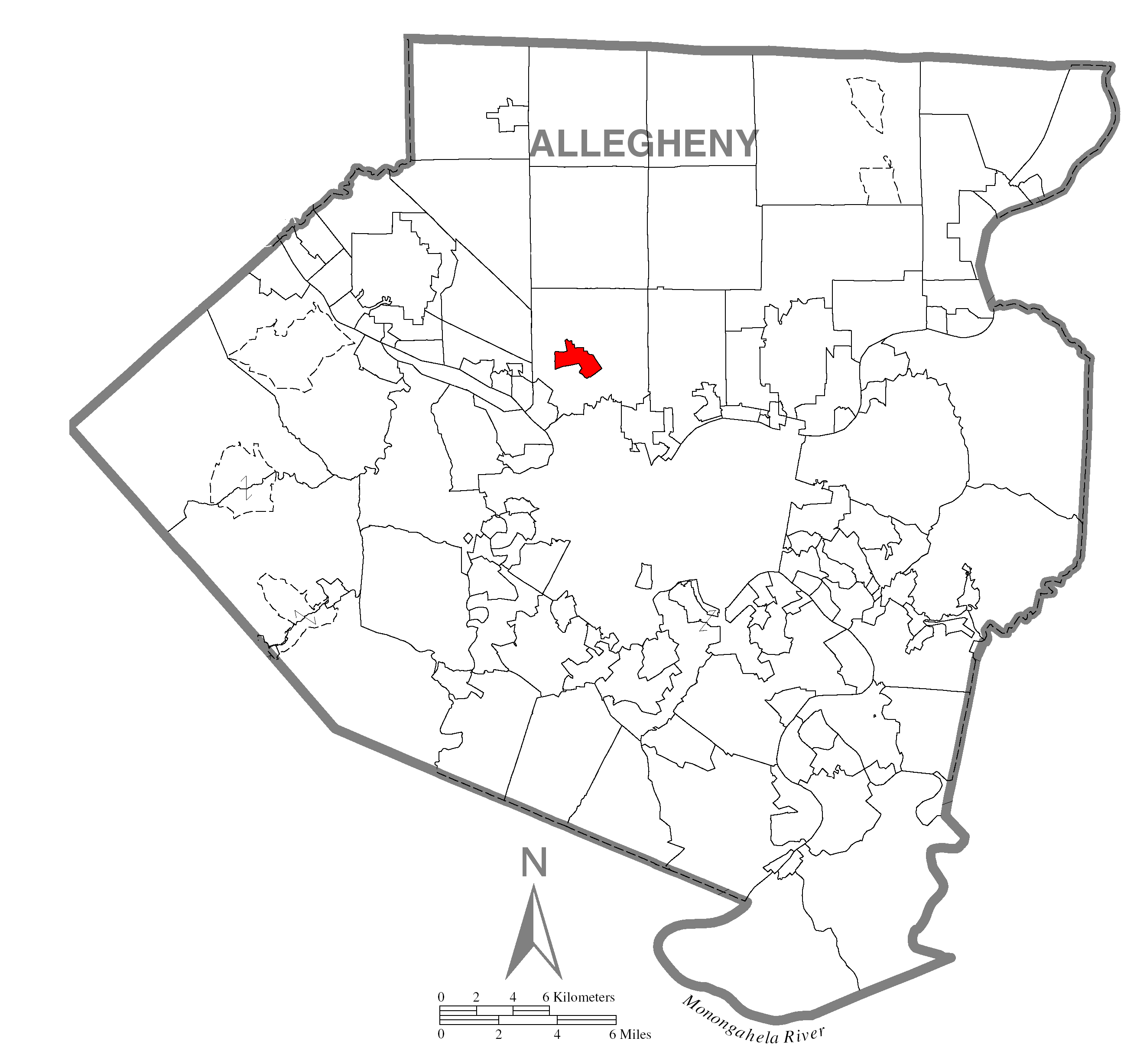 A map of Allegheny County showing West View, Pennsylvania (alternate) highlighted on the map.